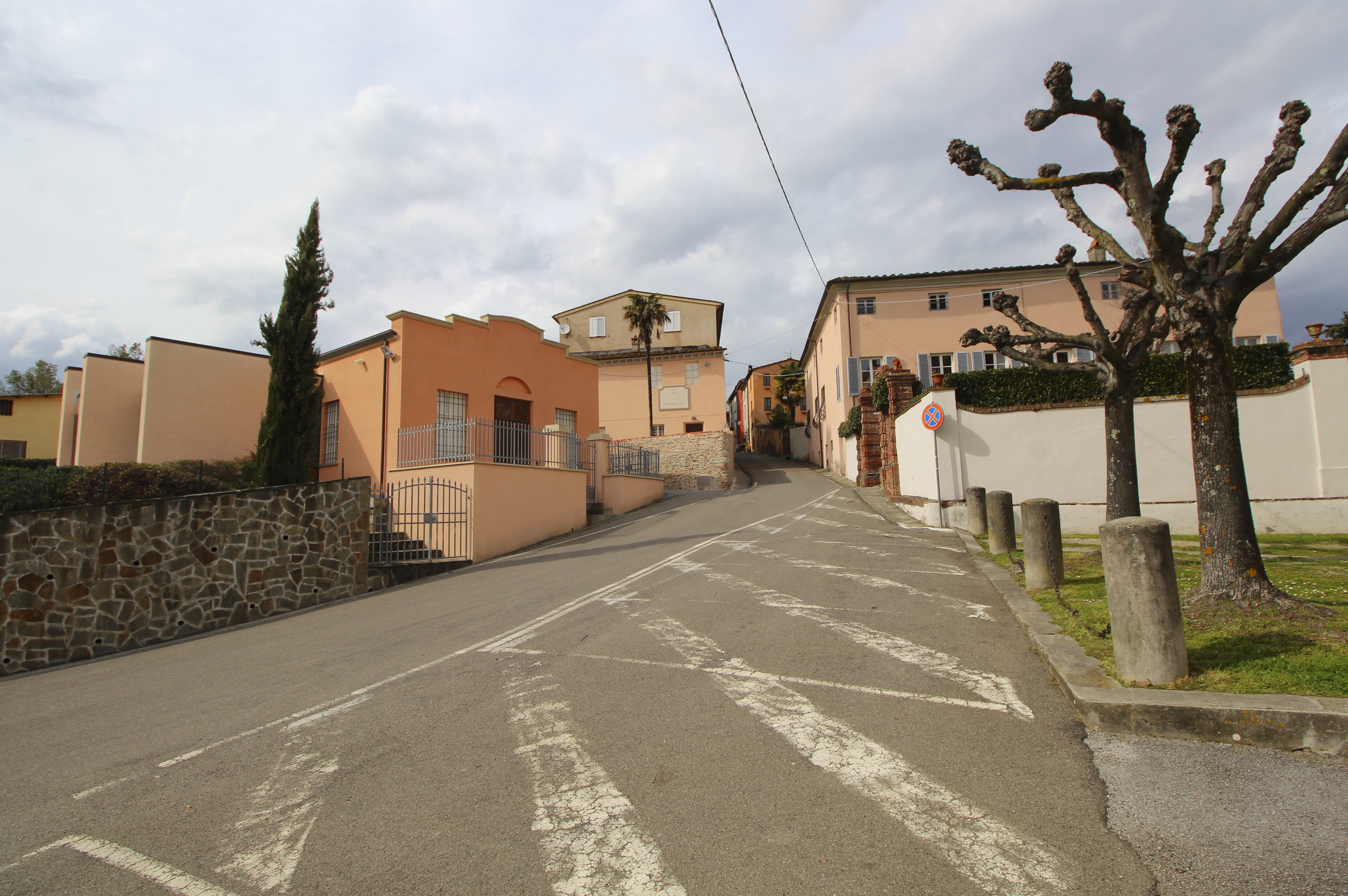 Gragnano, hamlet of Capannori, Province of Lucca, Tuscany, Italy